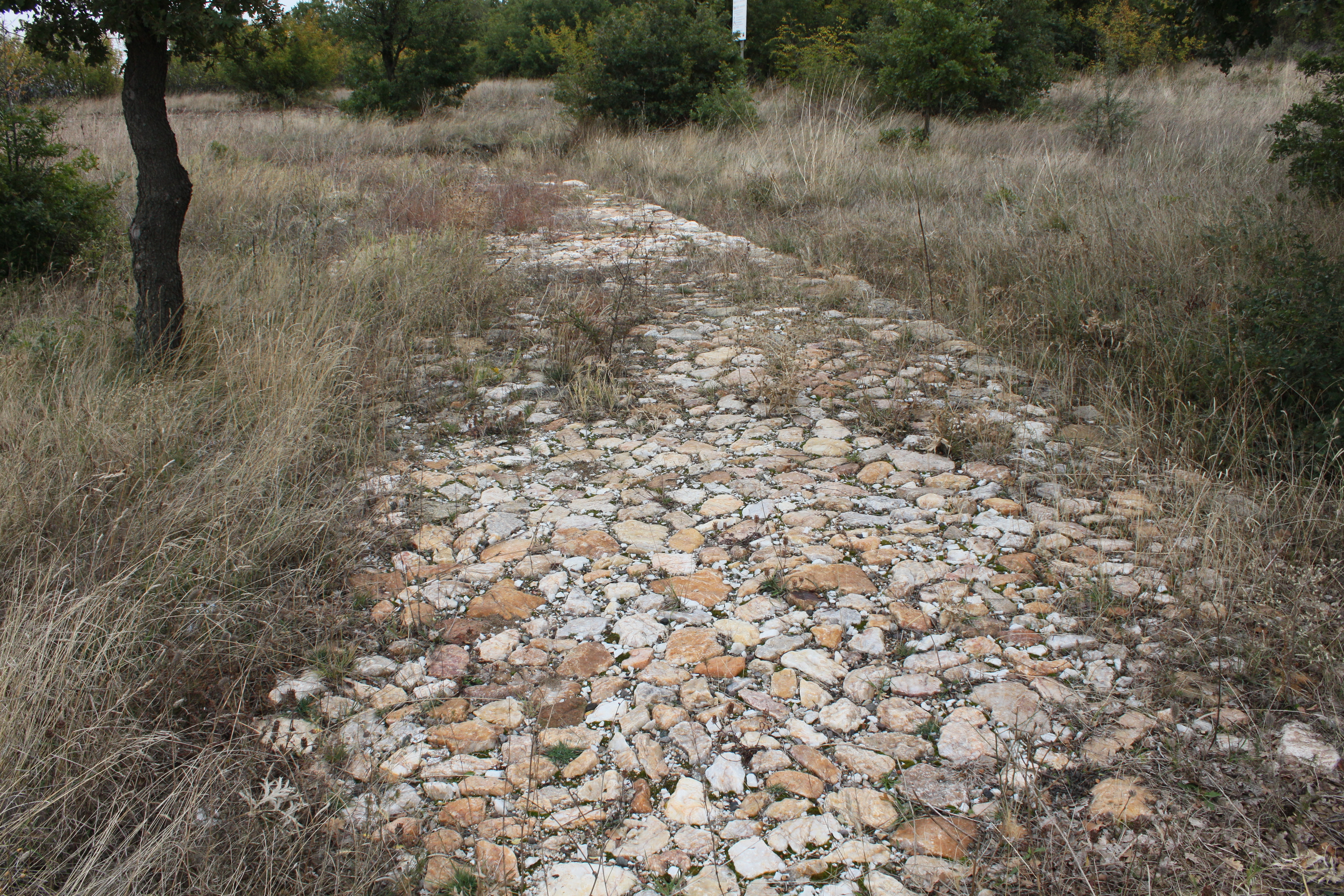 Castra rubra, Bulgaria